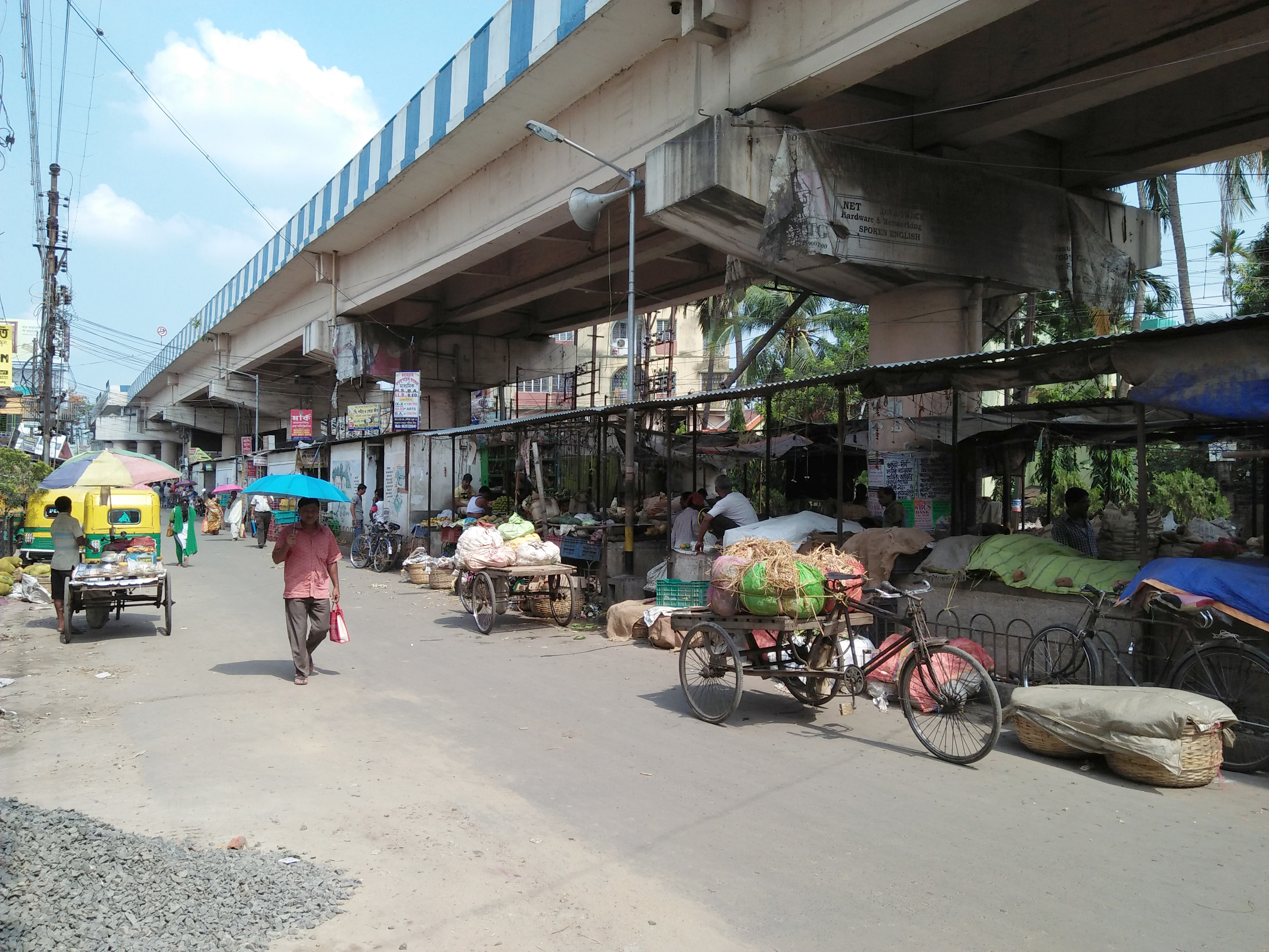 This was taken in North 24 Parganas.